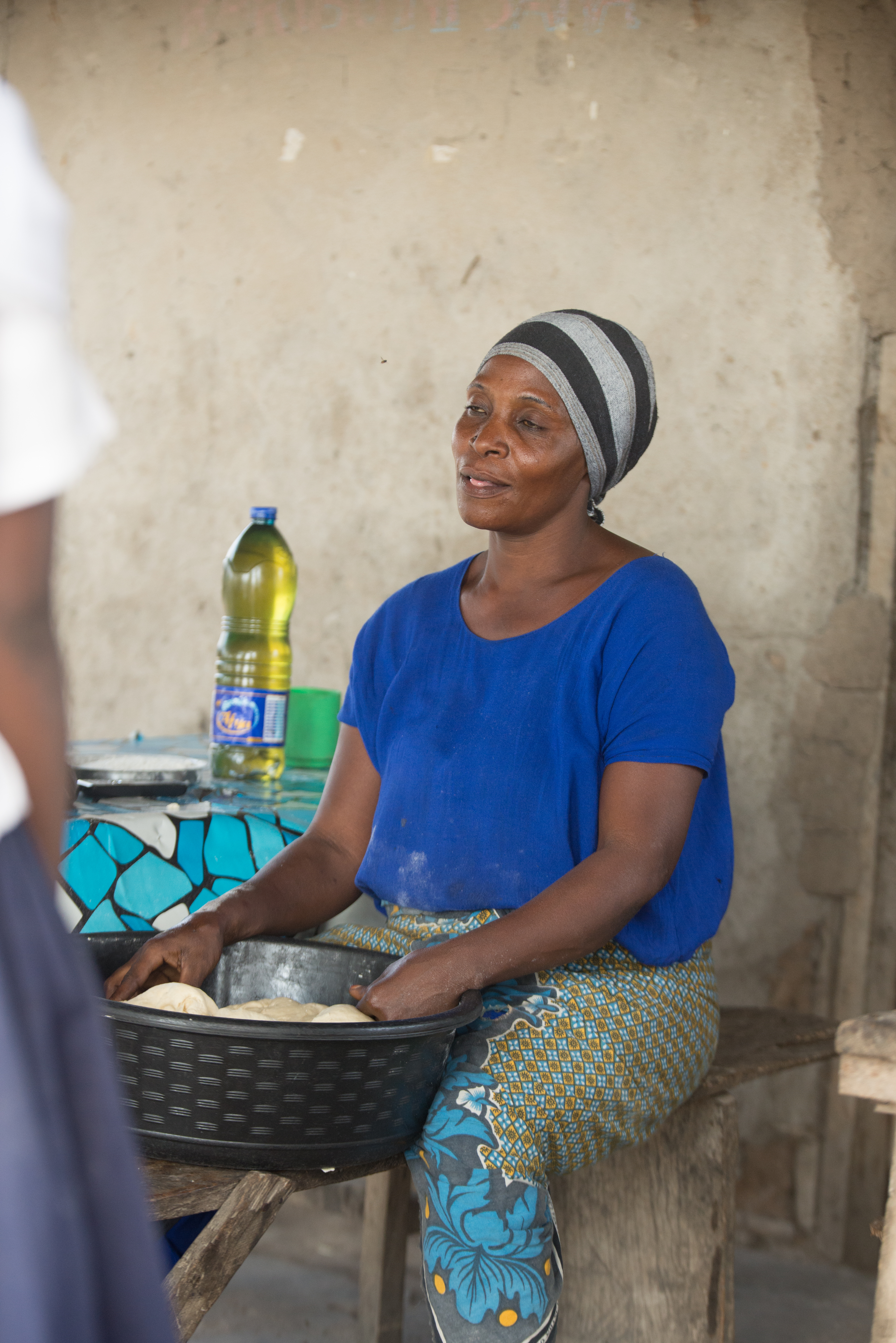 A woman making chapati This is an image of "African people at work" from Tanzania